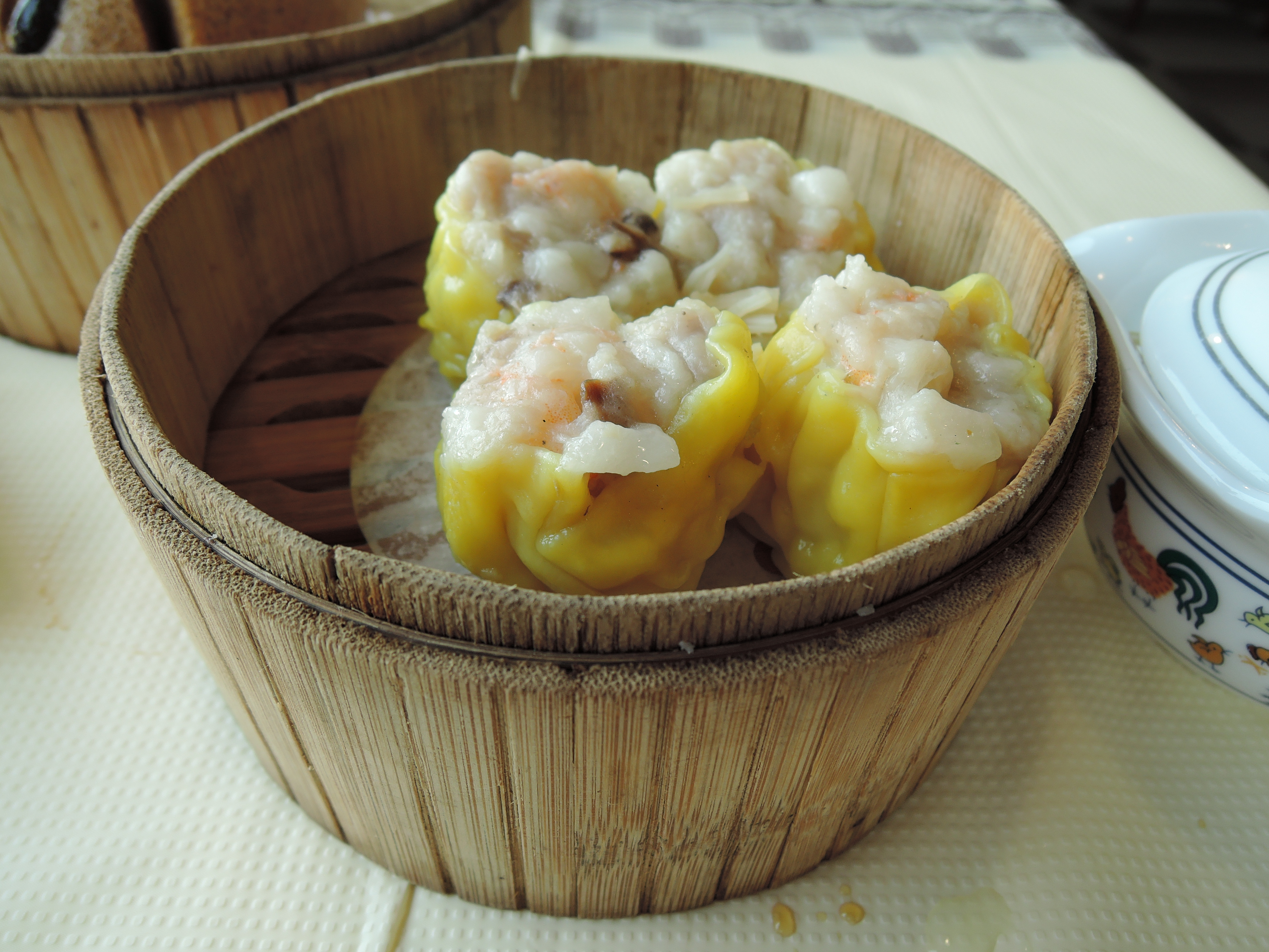 Siomay from home style in Cantonese restaurant at cheung chau island